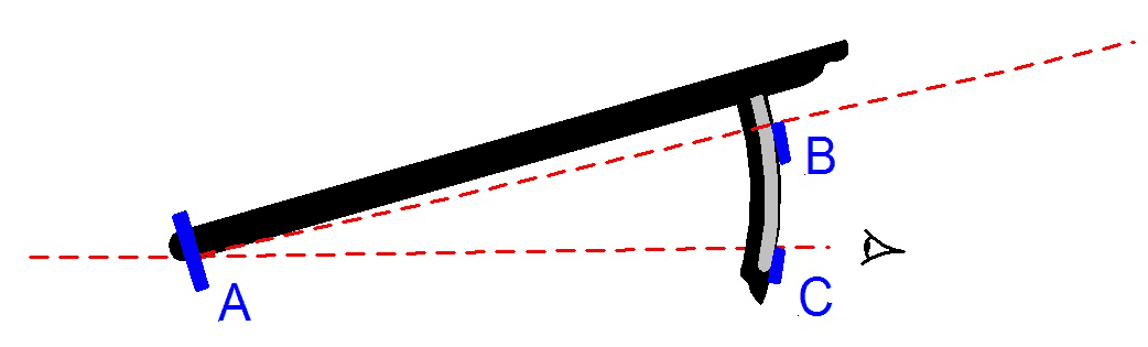 Drawing of an almucantar staff, used to measure the altitude of the sun at low altitudes.